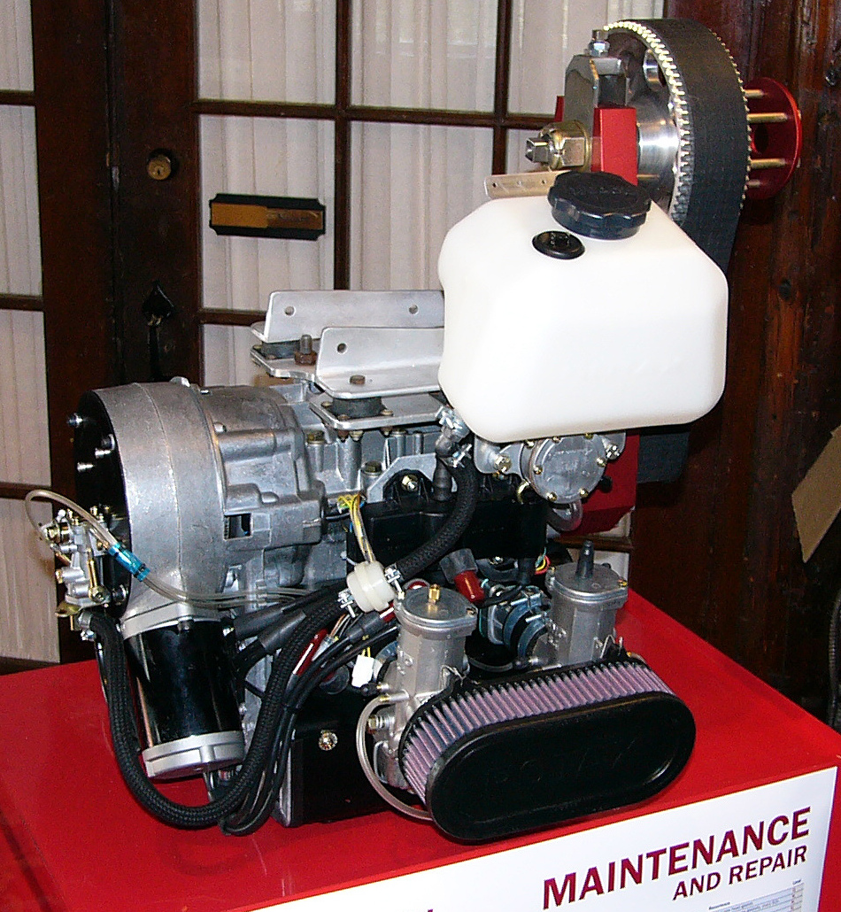 A Rotax 503 aircraft engine display by Aero Propulsion Technologies at the Challenger Winter Rendezvous, Montebello, Quebec